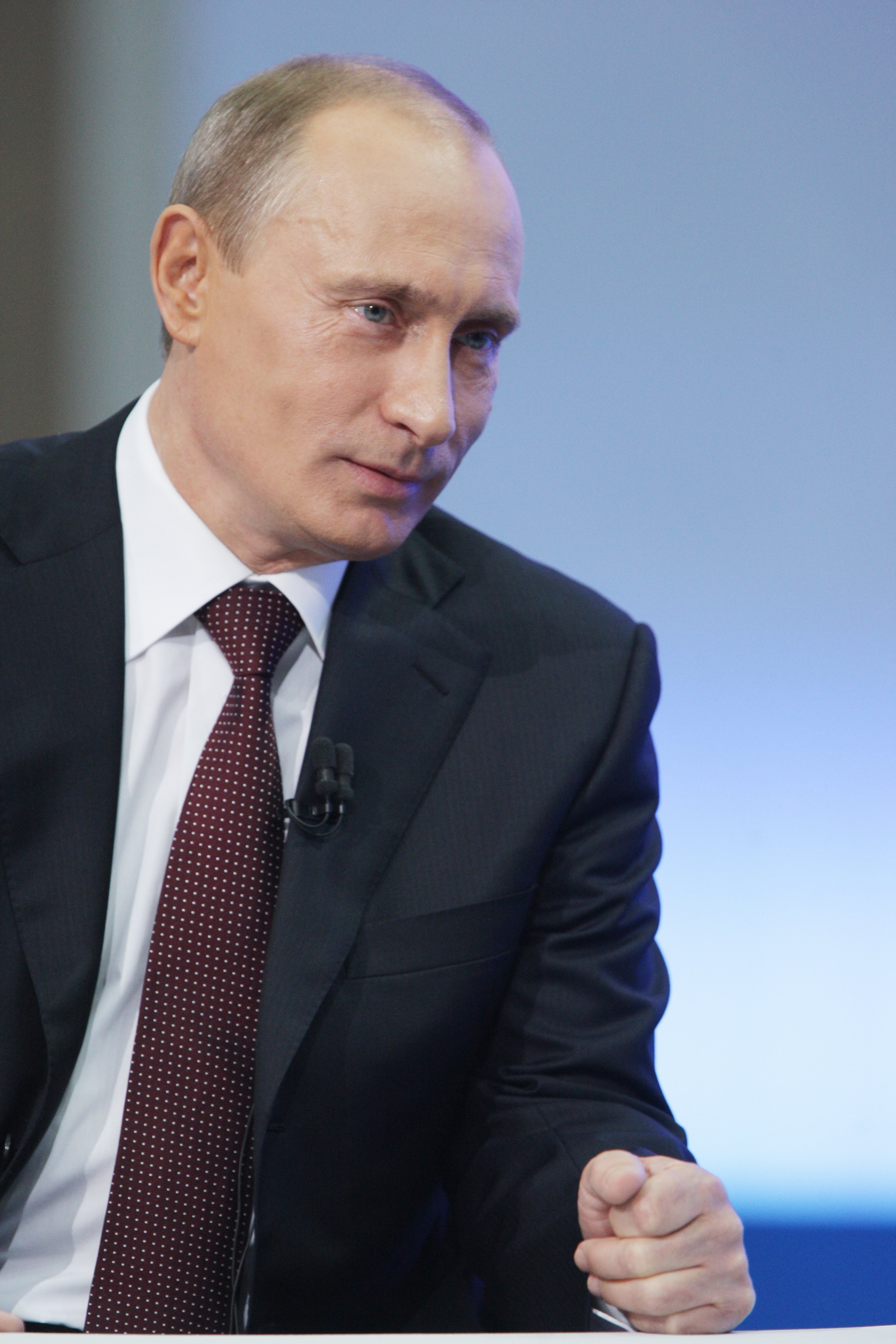 Official portrait of Vladimir Putin.